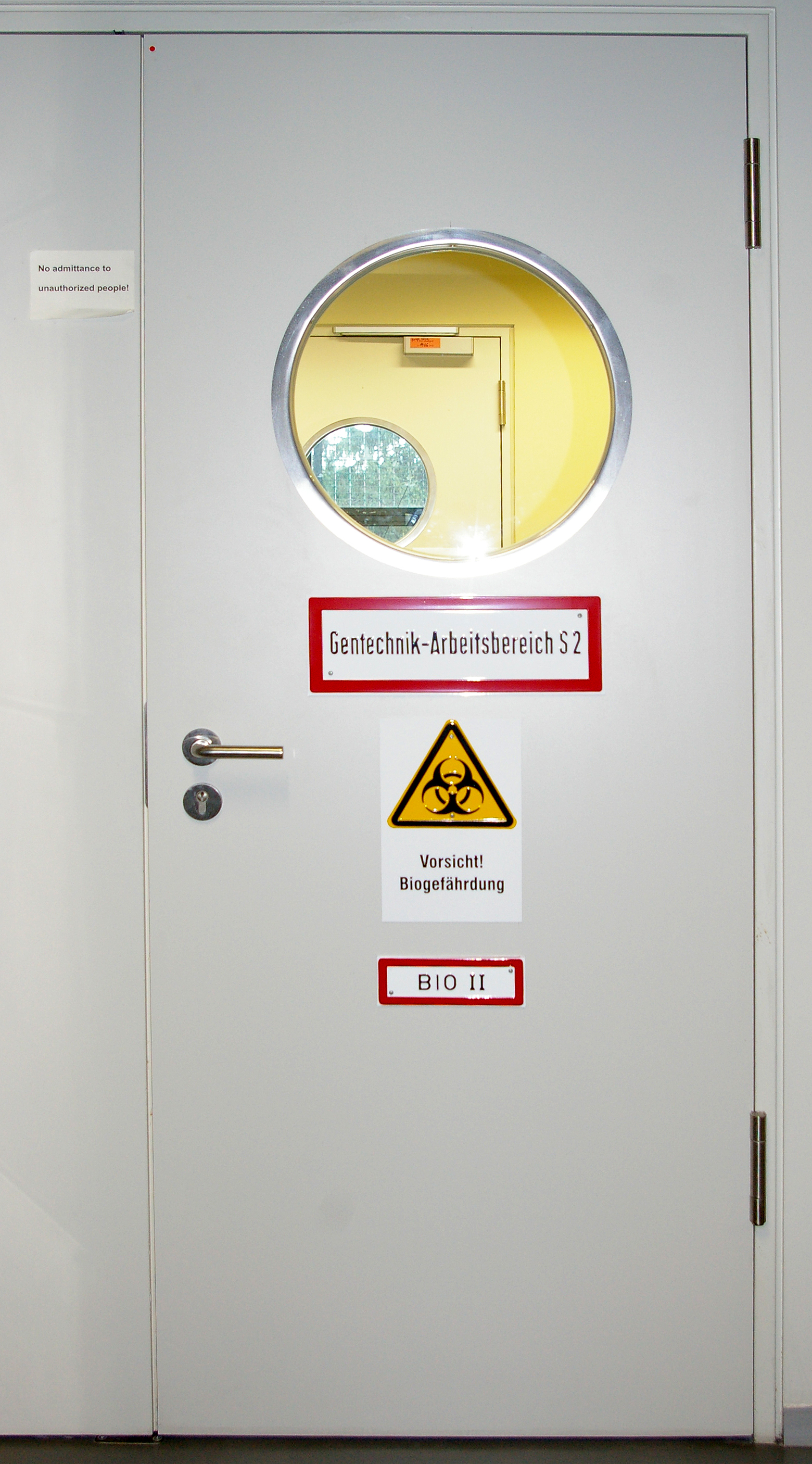 A door to S2 biohazard laboratory